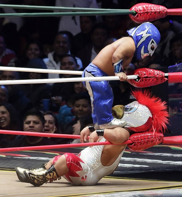 Viernes 30 de noviembre de 2018Arena México, ceremonia de develación de la placa conmemorativa por el reciente decreto de la Lucha Libre como Patrimonio Cultural Intangible de la Ciudad de México, estuvieron presentes autoridades del Consejo Mundial de Lucha Libre, y autoridades del gobierno de la CMDX, entre ellos Gabriela López Torres, coordinadora de Patrimonio Histórico Artístico y Cultural de la Secretaría de Cultura de la CDMX, además de invitados especiales.Fotografía: Tania Victoria/ Secretaría de Cultura CDMX